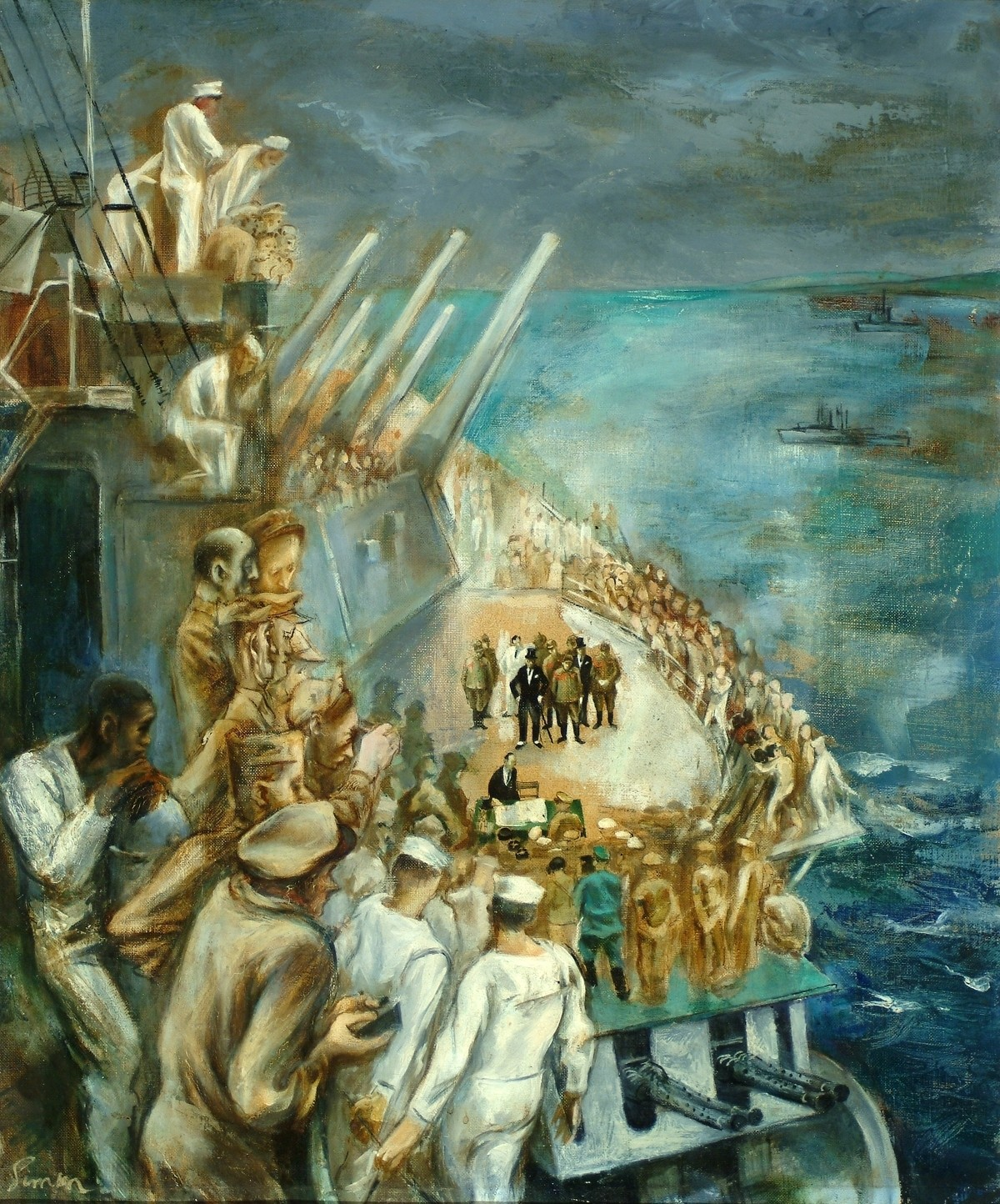 Watercolor painting, by official war artist, Sidney Simon, of the Formal Japanese Surrender as witnessed aboard the U.S.S. Missouri 11-2-1945 - in Tokyo Bay. From the collection of the U.S. Army Center of Military History.